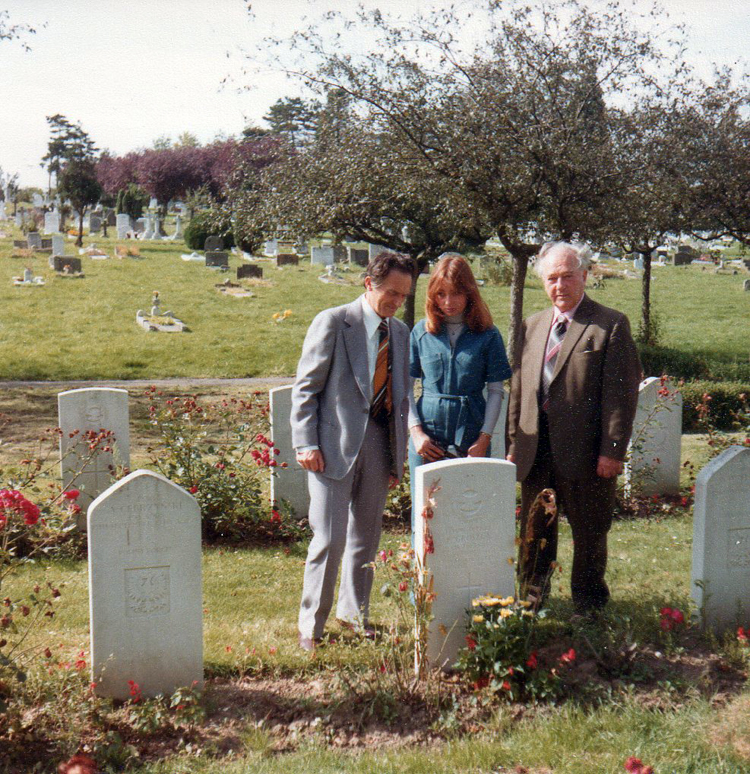 Piotr (L), brother of late Franciszek Gruszka by his grave.